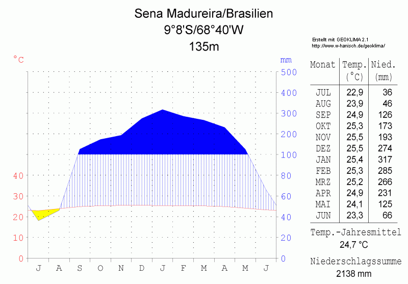 climate chart in the format by Walther and Lieth, metric, °Celsisus and millimeters, made with Geoklima 2.1